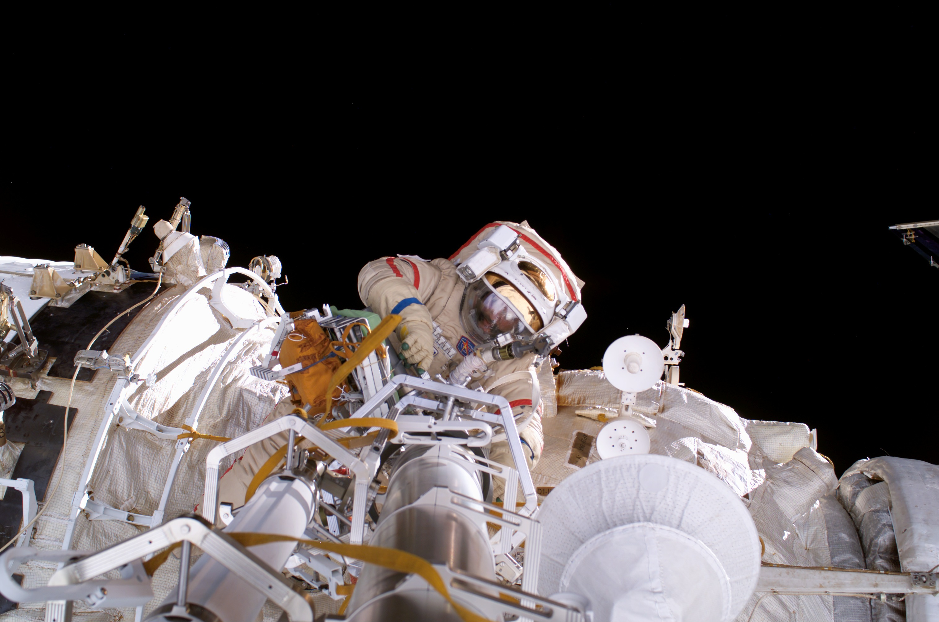 Cosmonaut Pavel V. Vinogradov, Expedition 13 commander representing Russia's Federal Space Agency, attired in a Russian Orlan spacesuit, participates in the first session of extravehicular activity (EVA) performed by the Expedition 13 crew during their six-month mission. During the 6-hour, 31-minute spacewalk, Vinogradov and astronaut Jeffrey N. Williams (out of frame), NASA space station science officer, repaired, retrieved and replaced hardware on the U.S. and Russian segments of the International Space Station.